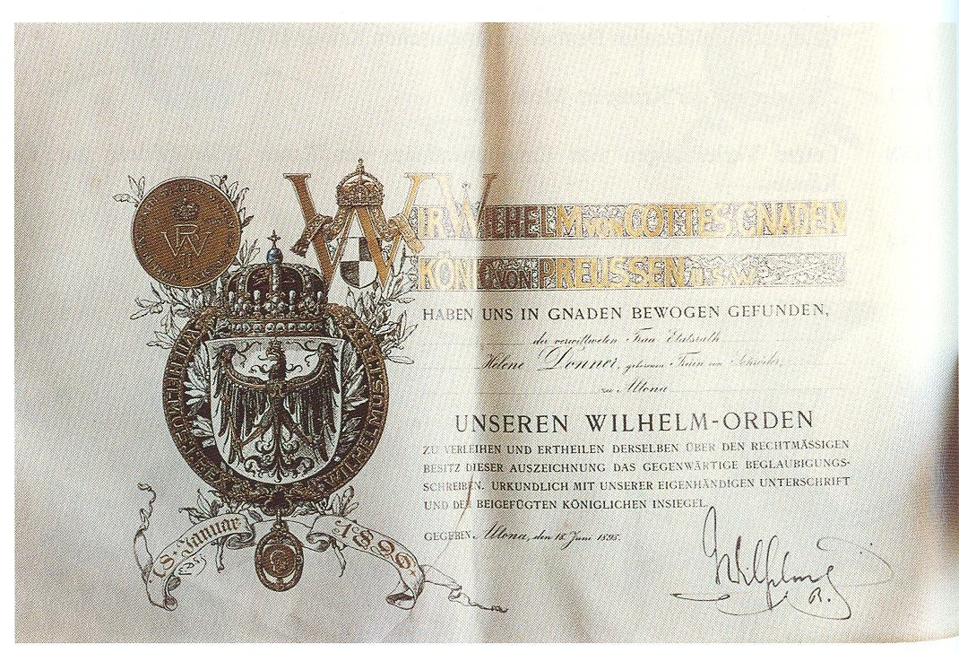 Diploma Wilhelm-Orden Prussia 1893 Helene Donner